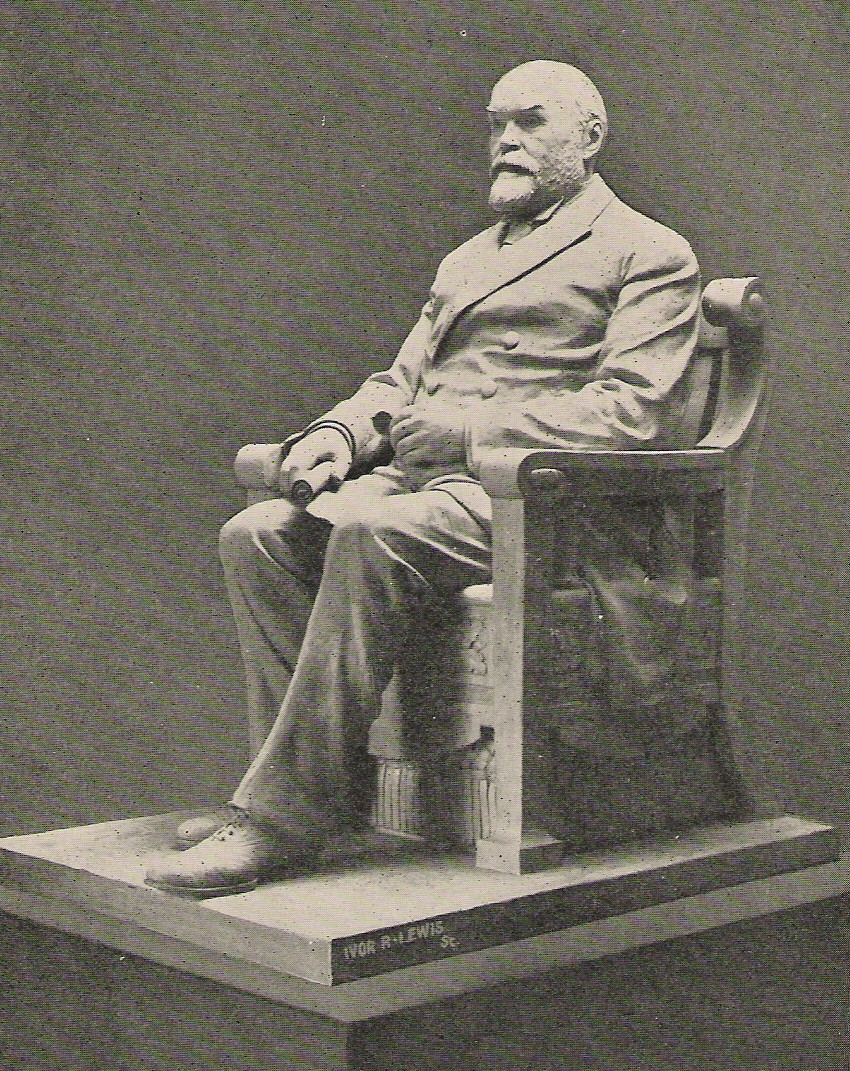 Bronze statue of Timothy Eaton in 1919. From Golden Jubilee 1869-1919: A Book to Commemorate the Fiftieth Anniversary of the T. Eaton Co. Limited, Toronto: The T. Eaton Co. Limited, 1919, page 230. Copyright expired.